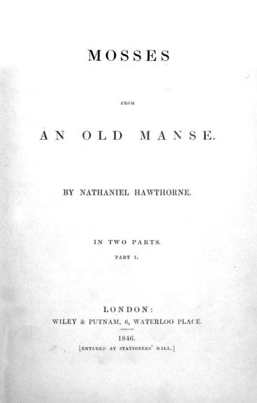 Title page for Mosses from an Old Manse by American writer Nathaniel Hawthorne. Published by Wiley and Putnam, 1846.